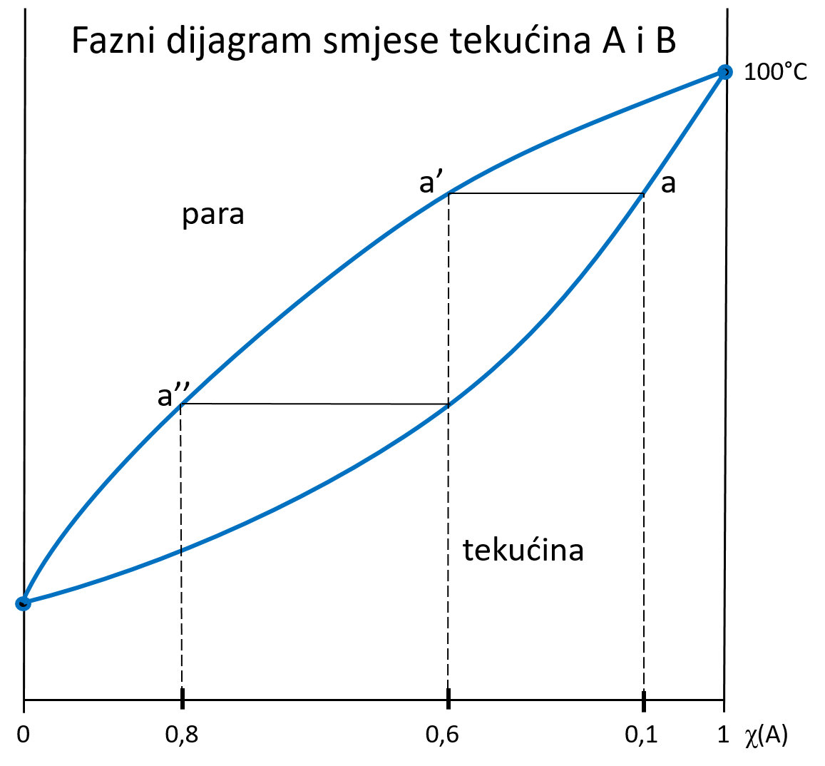 The phase diagram of the two liquids